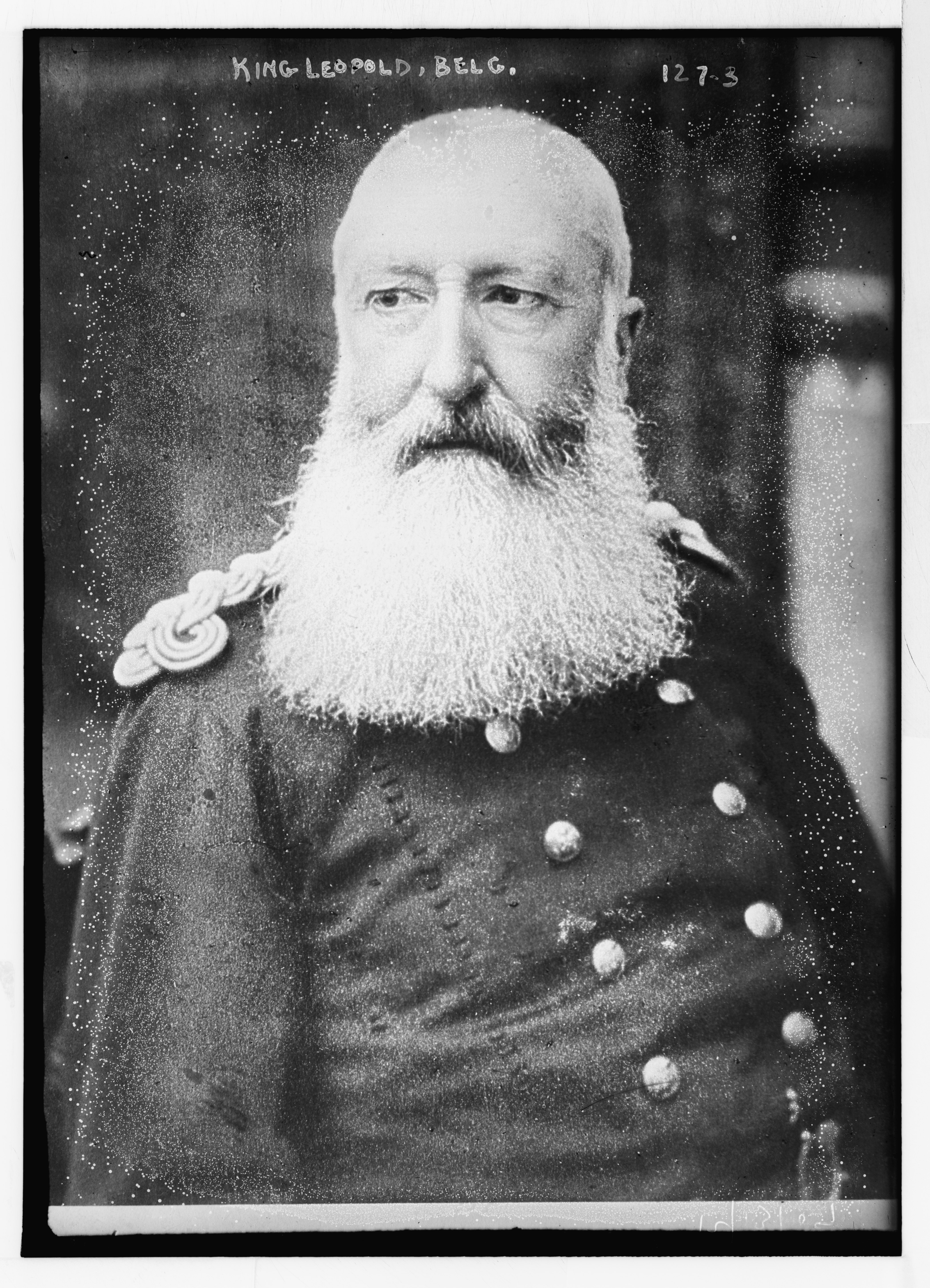 Title: King Leopold of Belgium, portrait bust Abstract/medium: 1 negative : glass ; 5 x 7 in. or smaller.